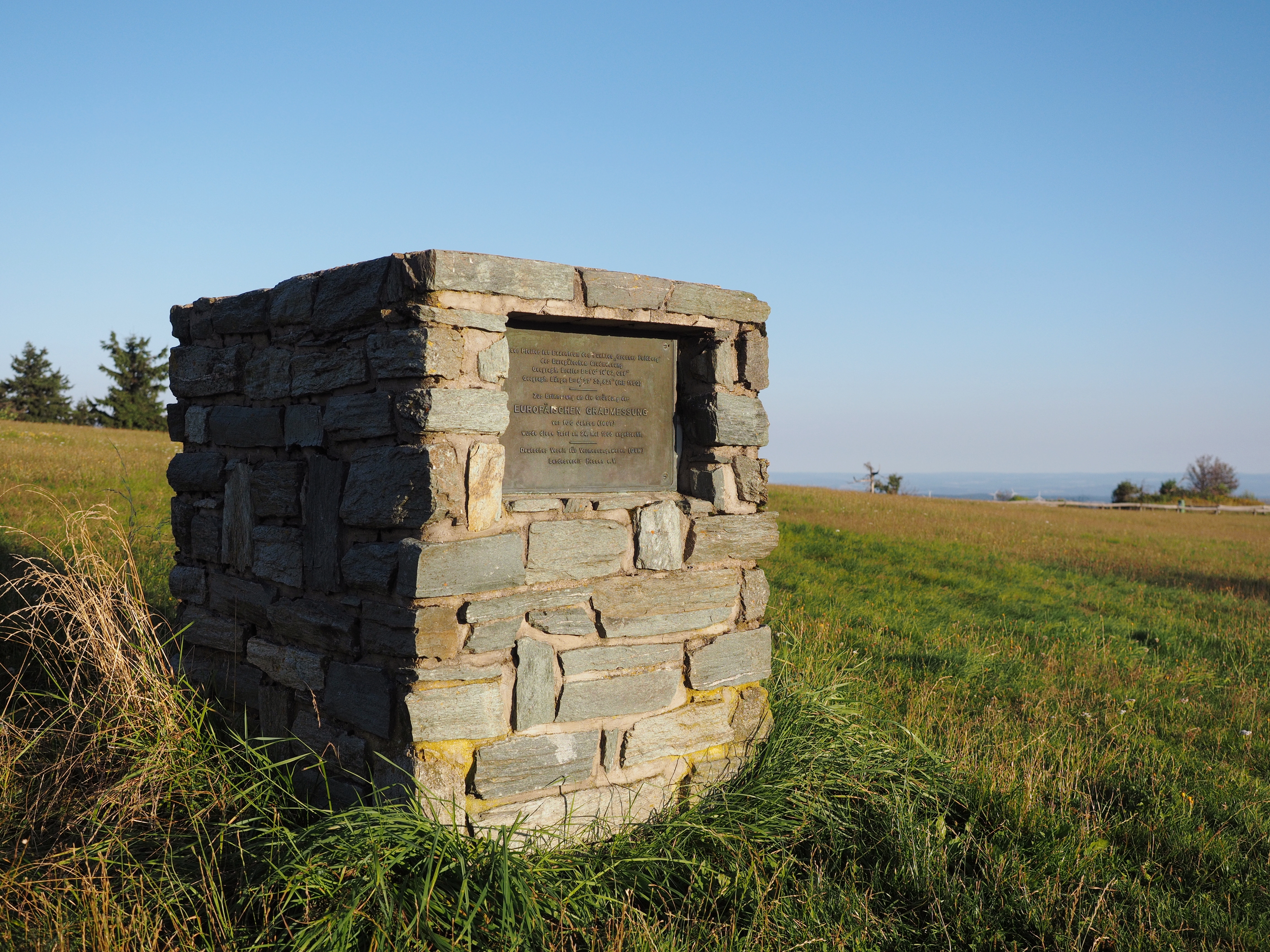 Trig point of the European Grade Measurement on the Großer Feldberg, Germany